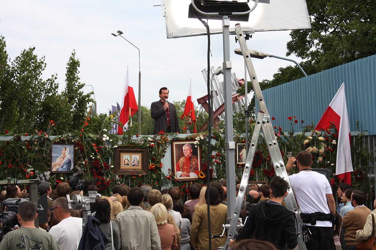 2013 Andrzej Wajda's „Wałęsa. The Man of Hope” film set, on the Solidarity Square in Gdańsk. This historical area of Lenin Shipyard in Gdańsk recreates striking time in 1980, and singing the August Agreements.